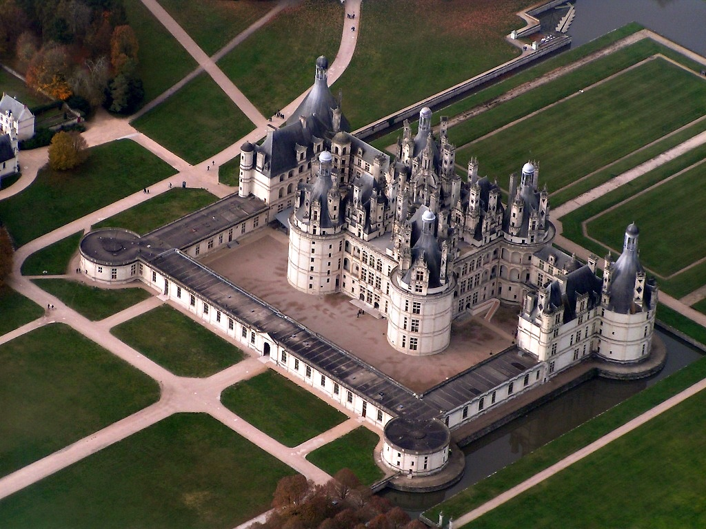 Arial view of the château de Chambord